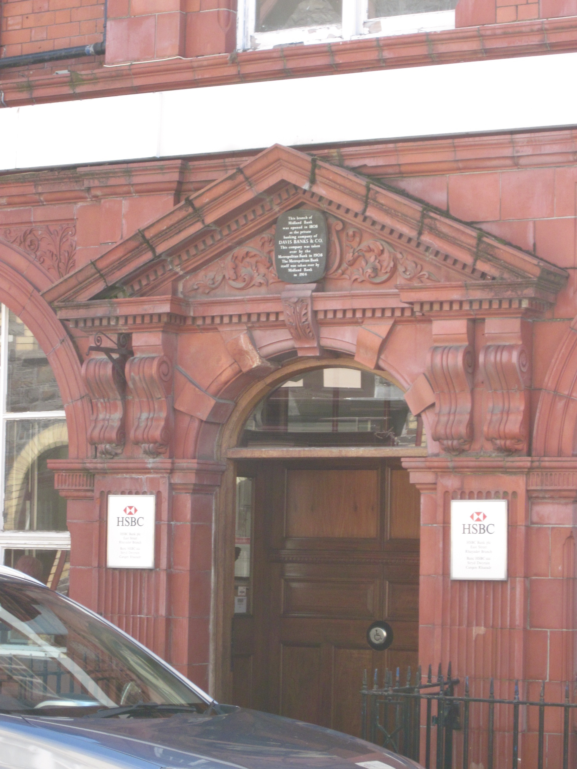 HSBC Bank, Rhayader